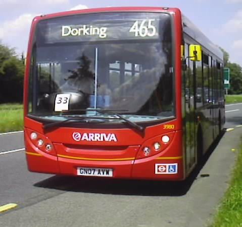 Arriva Guildford & West Surrey 3980 (GN07 AVW), an Alexander Dennis Enviro200 Dart, on the A24 London Road in Dorking, at the foot of Box Hill by the stepping stones car park, on route 465.